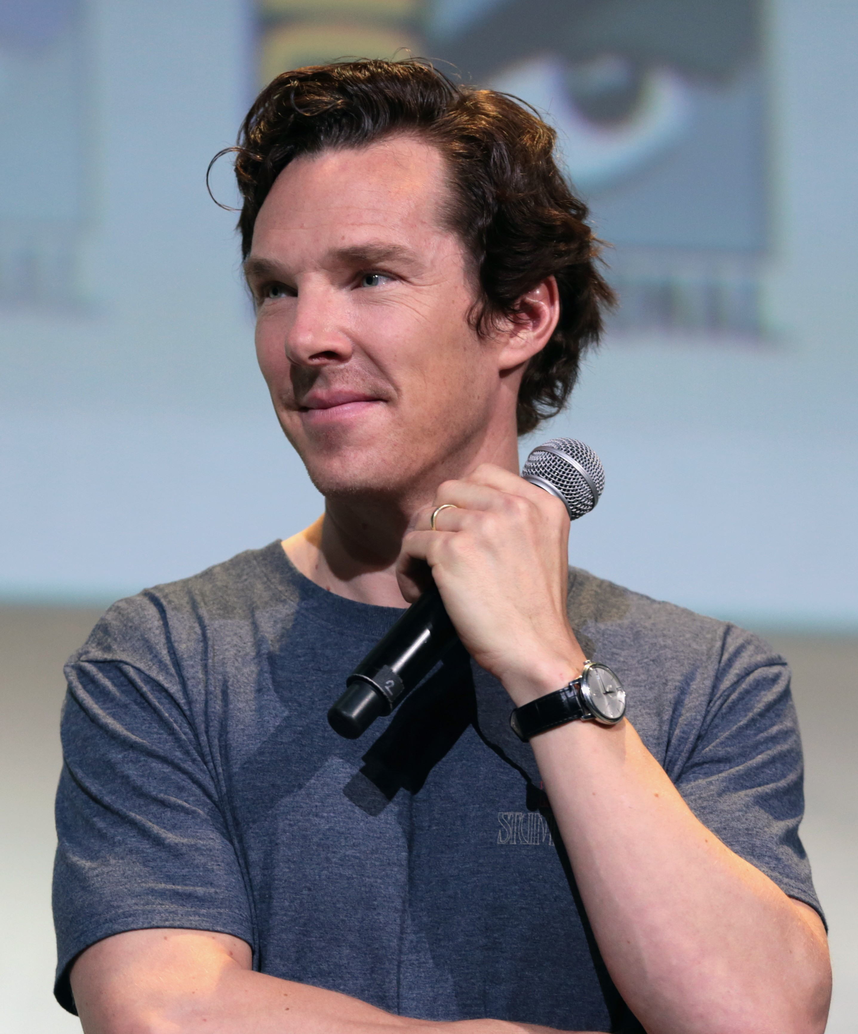 Benedict Cumberbatch speaking at the 2016 San Diego Comic Con International, for "Doctor Strange", at the San Diego Convention Center in San Diego, California.